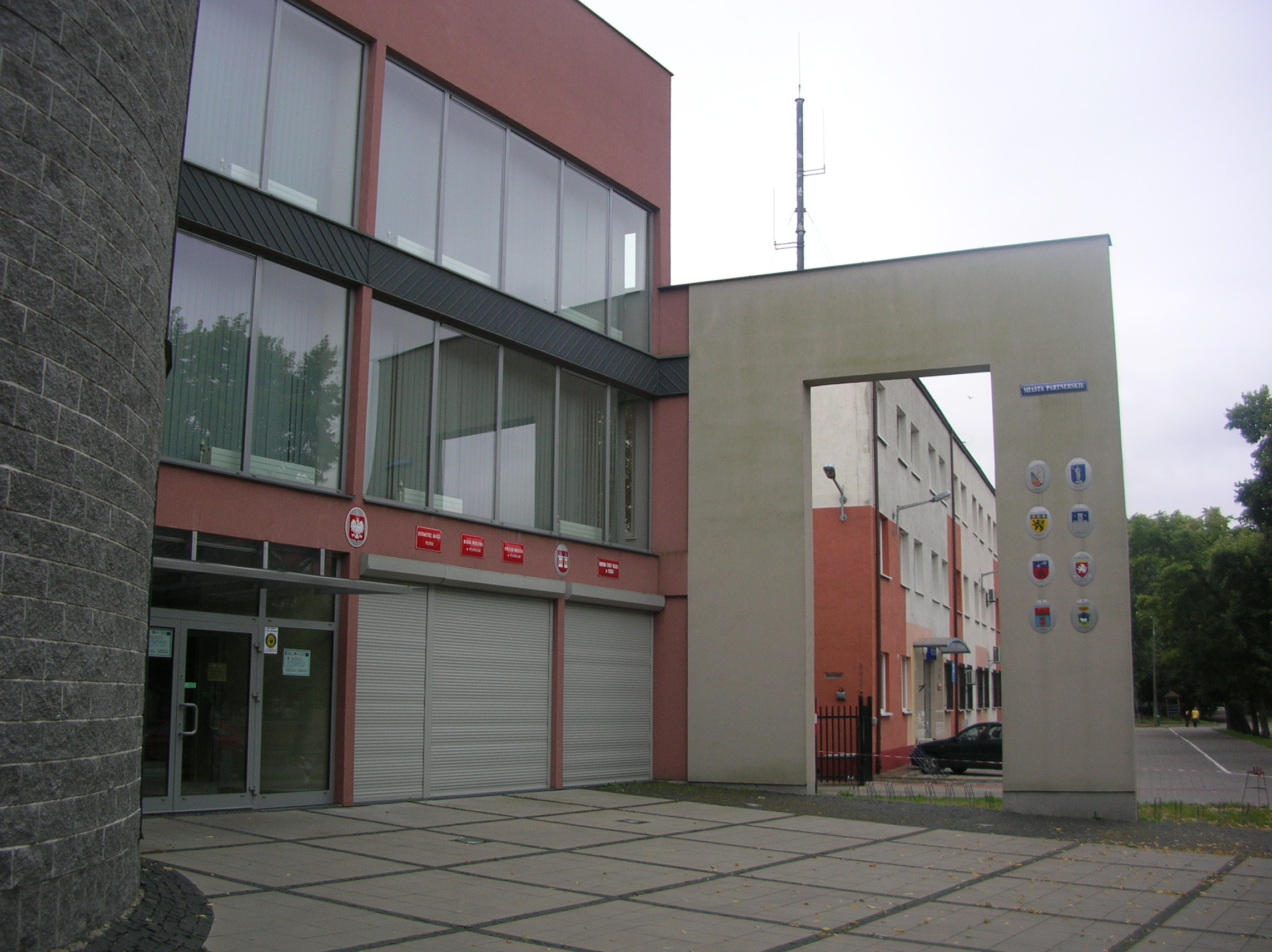 City Council of Płońsk, Poland